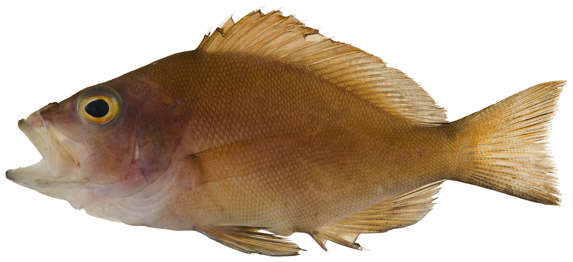 Hypoplectrus nigricans (Poey, 1852)—black hamlet, 67.2 mm SL. Photo by JT Williams.